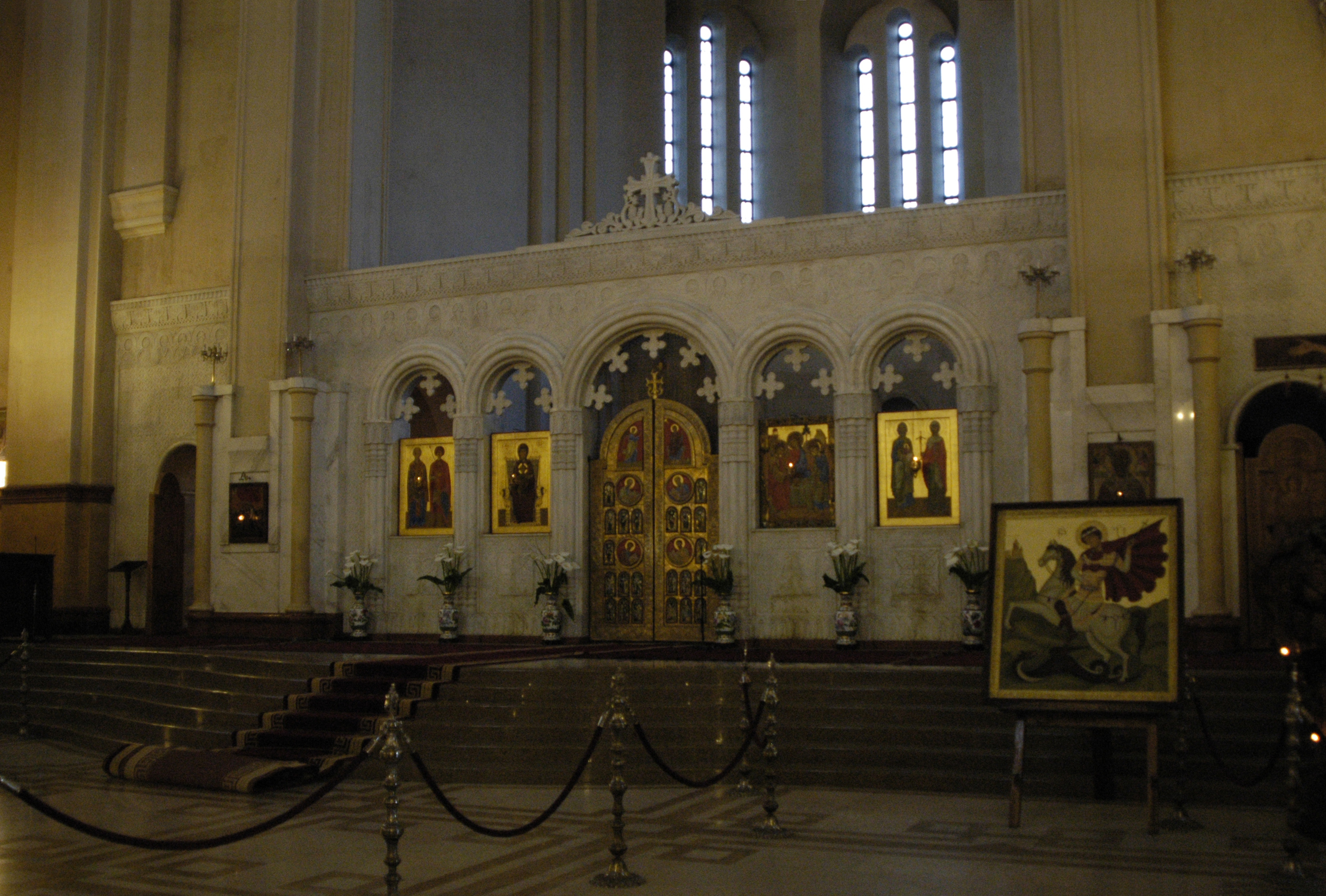 Iconostasis at Holy Trinity (Sameba) Cathedral, Tbilisi. Icon of St George in the foreground.